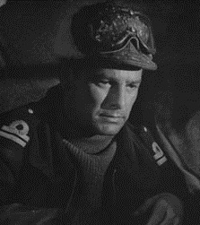 Nino Persello- actor